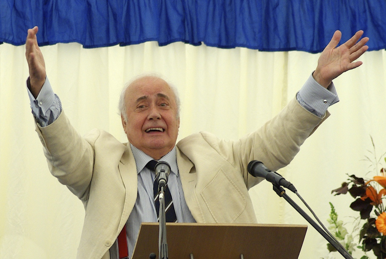 The sad news came through today (19.06.12) that comedian and actor Victor Spinetti, a former pupil of Monmouth School, has passed away at Monnow Vale Hospital, Monmouth. Victor appeared in the 1960s Beatles film 'A Hard Day's Night'. In this image Victor is seen giving one of the funniest and most heart-warming speeches I have ever heard at Monmouth School's 'Speech Day' (prize-giving day). It was good to have him back for the day. To clarify, this picture appears on the front page of The Beacon newspaper but I took it. It can be used by others with permission.